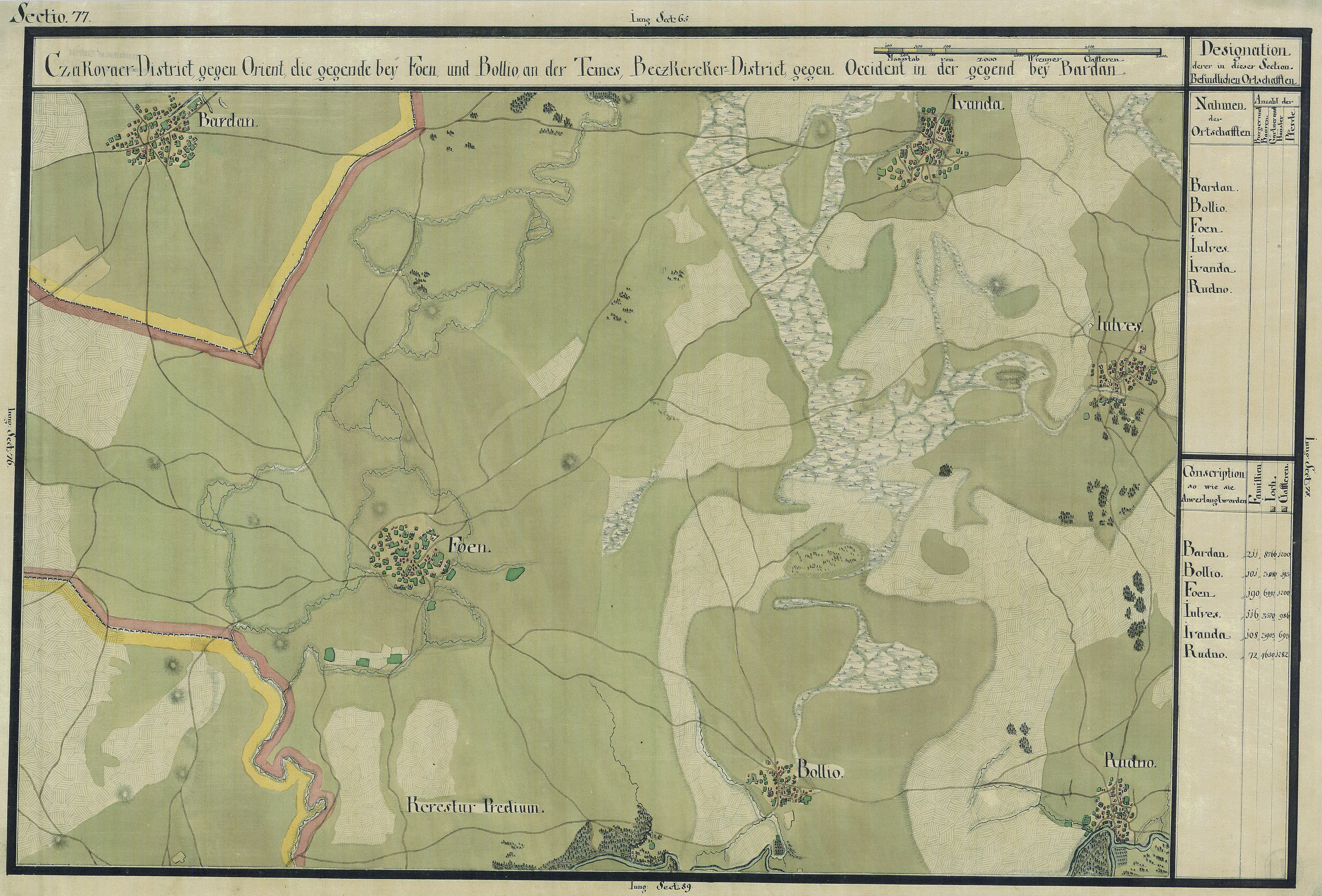 The Banat region in the cadastral maps: Josephinische Landesaufnahme, 1769-72. Josephinische Landaufnahme pg077